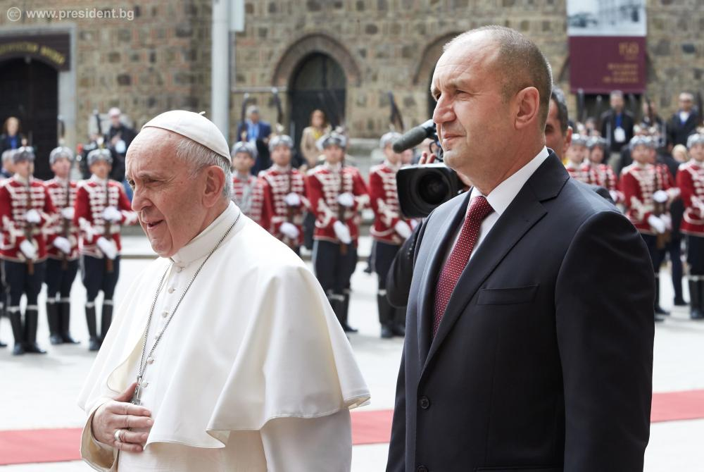 President Rumen Radev Welcomes His Holiness Pope Francis in Bulgaria.